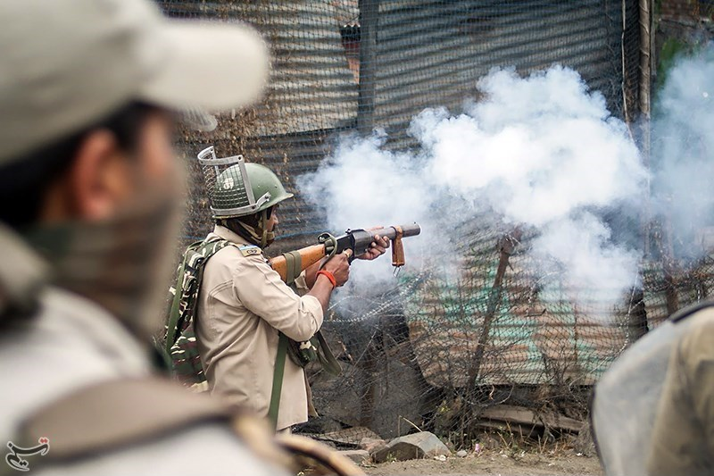 Police, Protesters Clash after Eid Prayers in Kashmir September, 02, 2017 - 14:50 Indian security forces used tear gas and pellet guns to disperse thousands of pro-independence demonstrators following Eid al-Adha (the Feast of Sacrifice) prayers in Kashmir